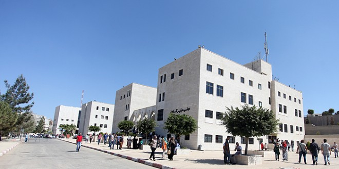 Specialties